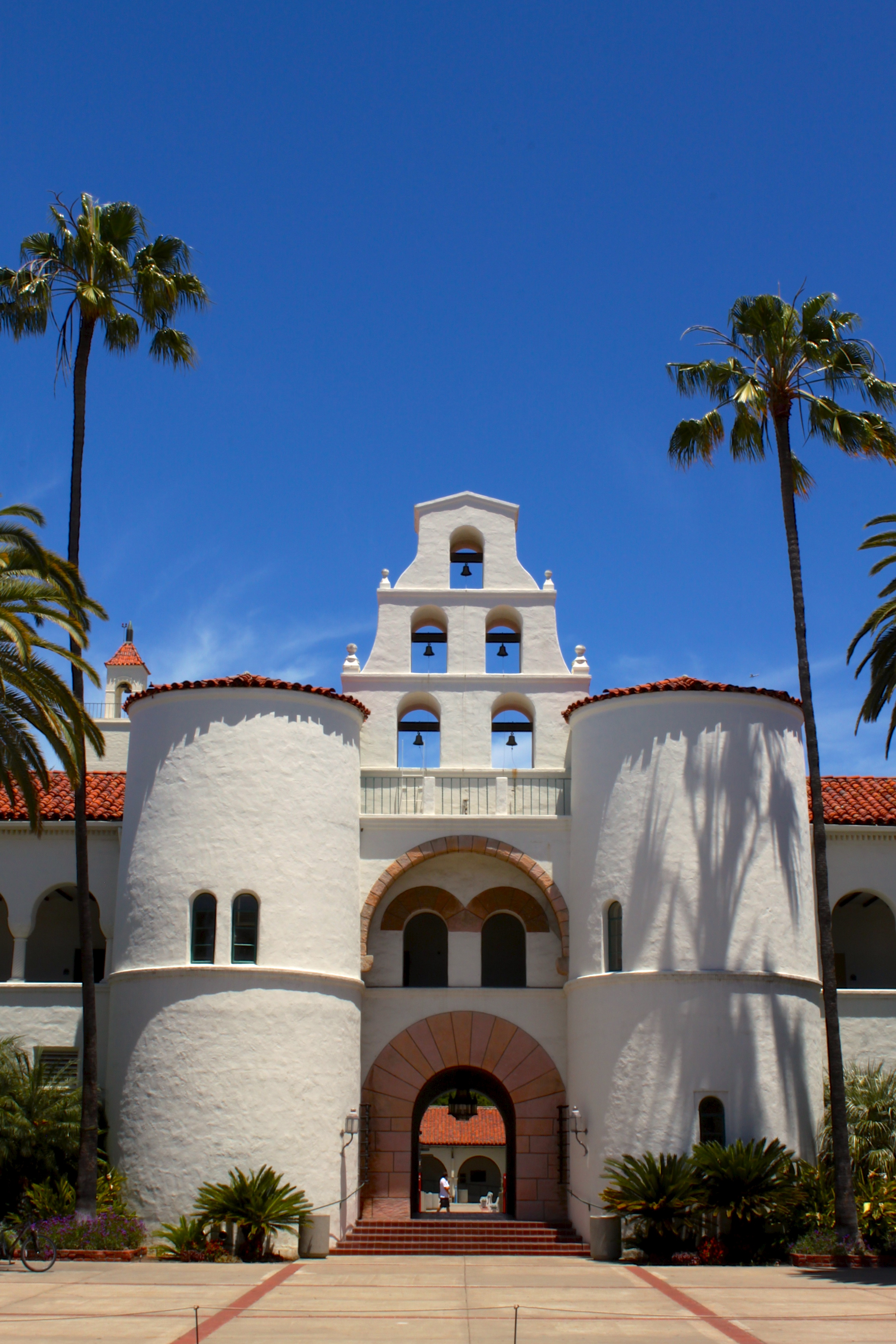 San Diego State University, 5300 Campanile Dr. San Diego